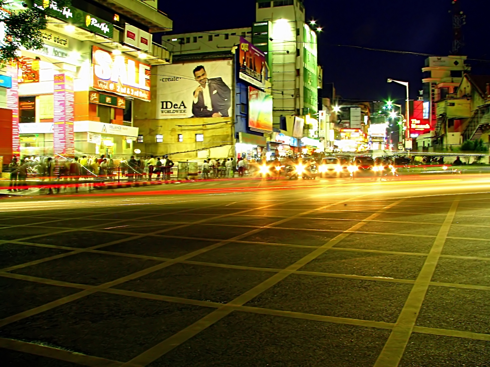 Traffic waiting at Brigade Road, Bangalore. One of the most happening spots in Bangalore, the IT cowd of India's silicon valley usually comes here to eat, shop and enjoy.